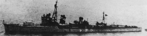 Imperial Japanese Navy destroyer Shigure, Shiratsuyu-class.